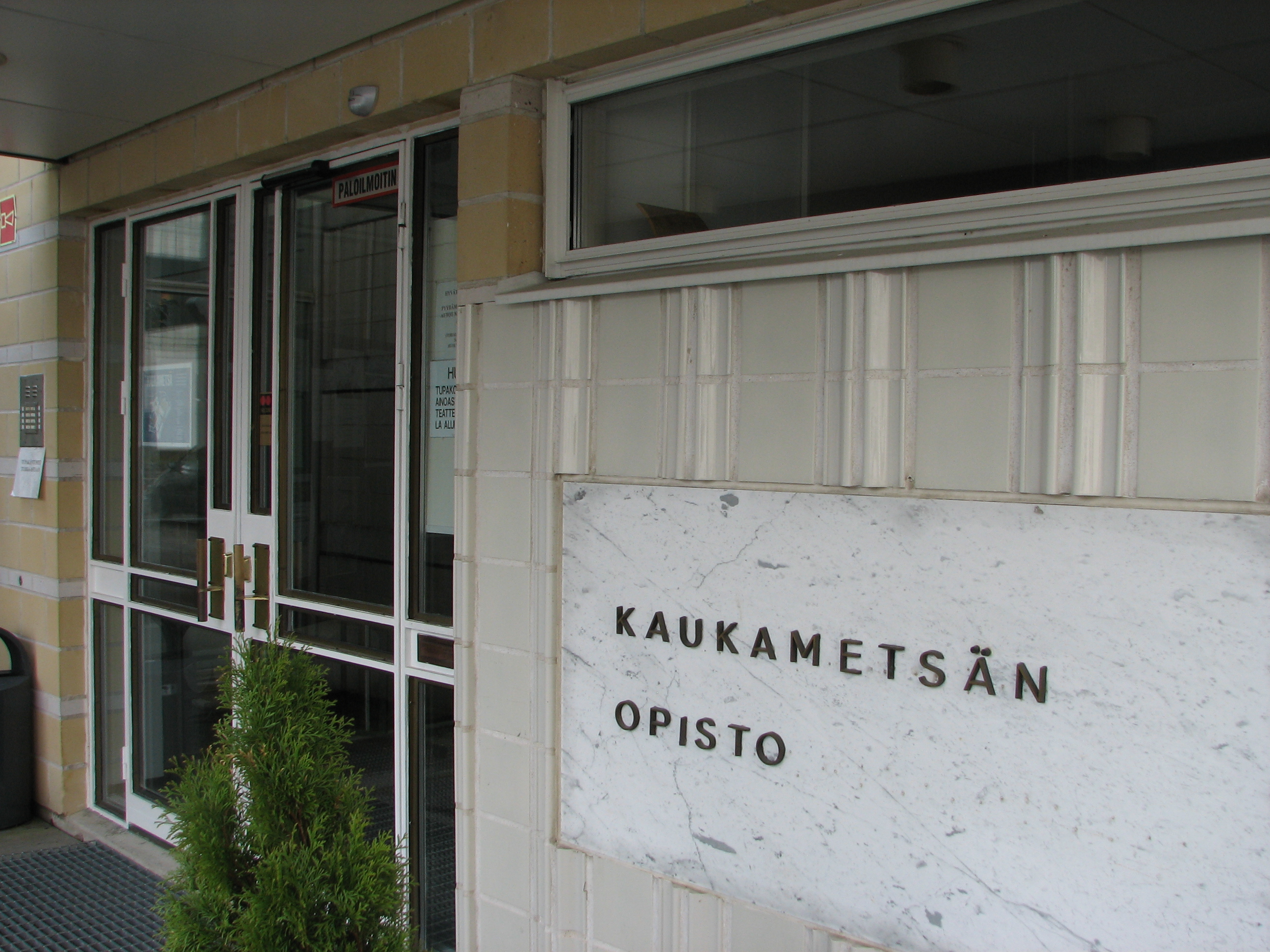 Kaukametsä Civic Centre in Kajaani, Finland